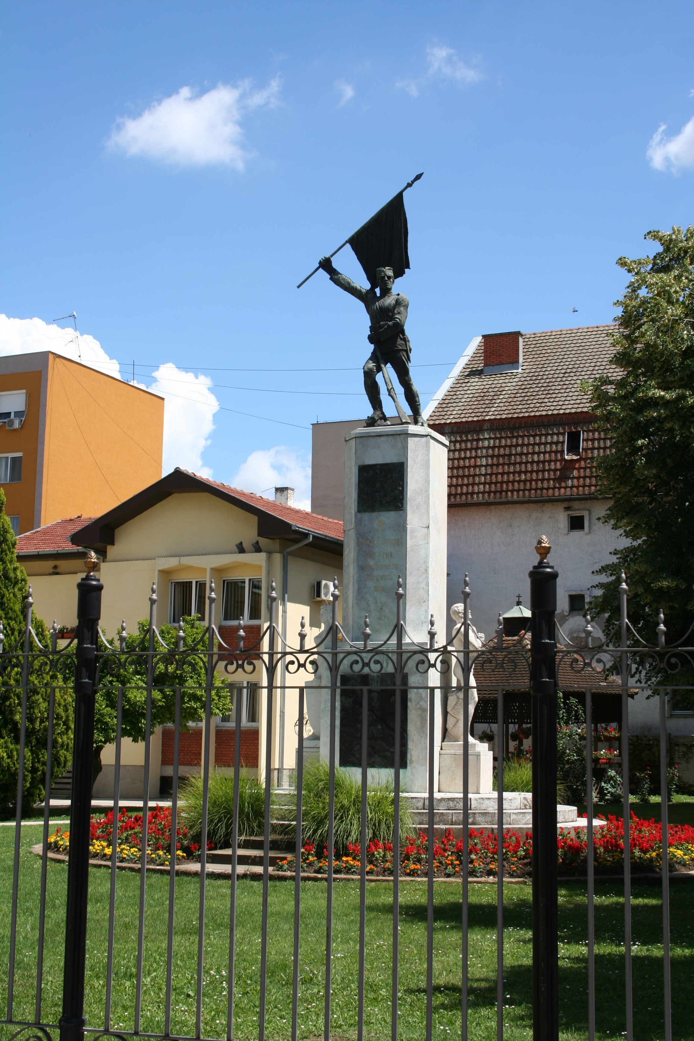 Church of the apostles Saint Peter and Saint Paul